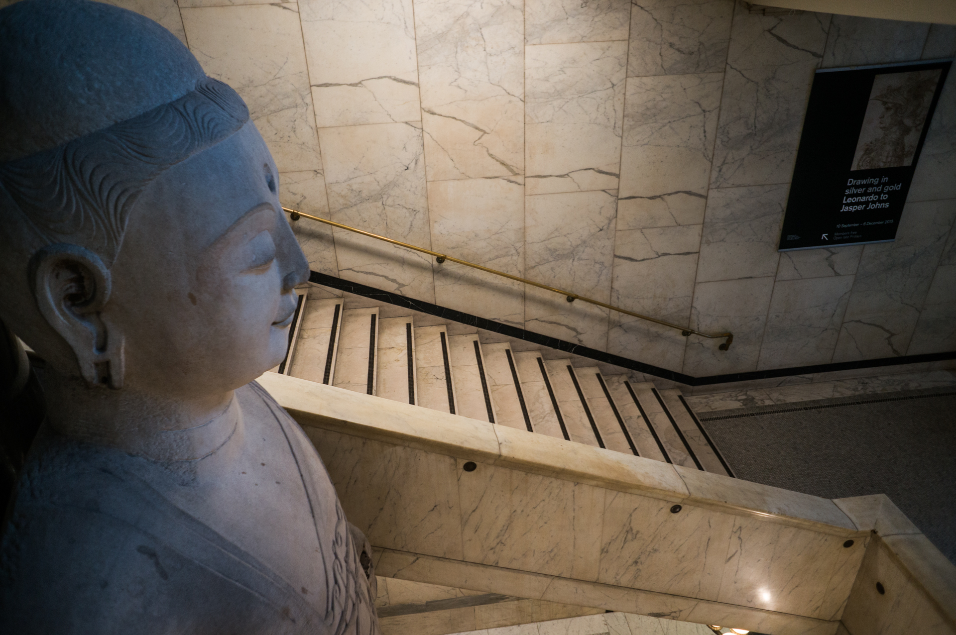 British Museum - Hallways